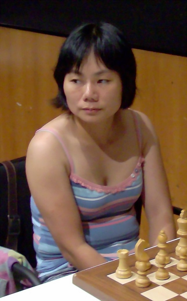 Peng Zhaoqin at the Chess Classics 2008